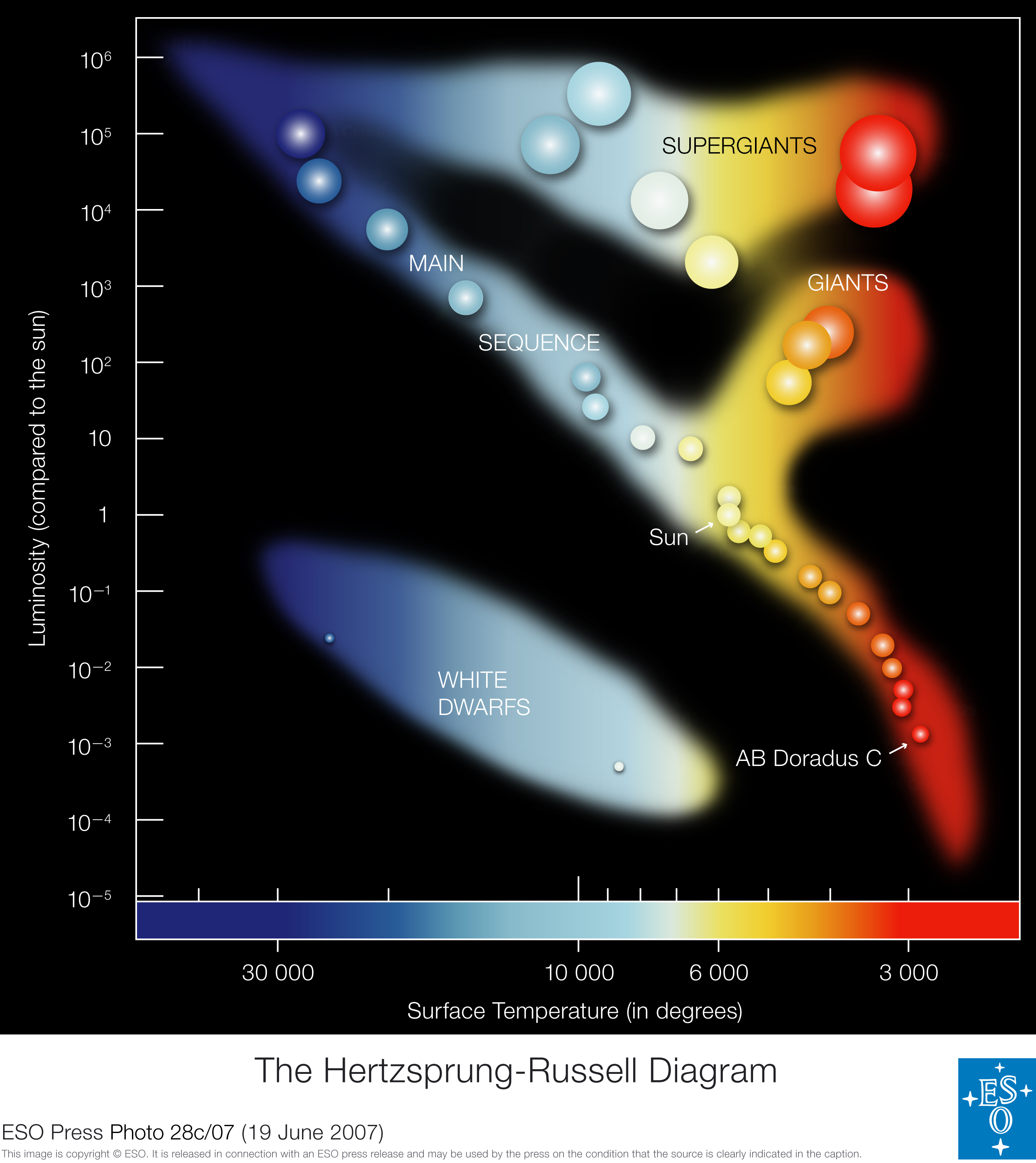 In the Hertzprung-Russell diagram the temperatures of stars are plotted against their luminosities. The position of a star in the diagram provides information about its present stage and its mass. Stars that burn hydrogen into helium lie on the diagonal branch, the so-called main sequence. Red dwarfs like AB Doradus C lie in the cool and faint corner. AB Dor C has itself a temperature of about 3 000 degrees and a luminosity which is 0.2% that of the Sun. When a star exhausts all the hydrogen, it leaves the main sequence and becomes a red giant or a supergiant, depending on its mass (AB Doradus C will never leave the main sequence since it burns so little hydrogen). Stars with the mass of the Sun which have burnt all their fuel evolve finally into a white dwarf (left low corner).